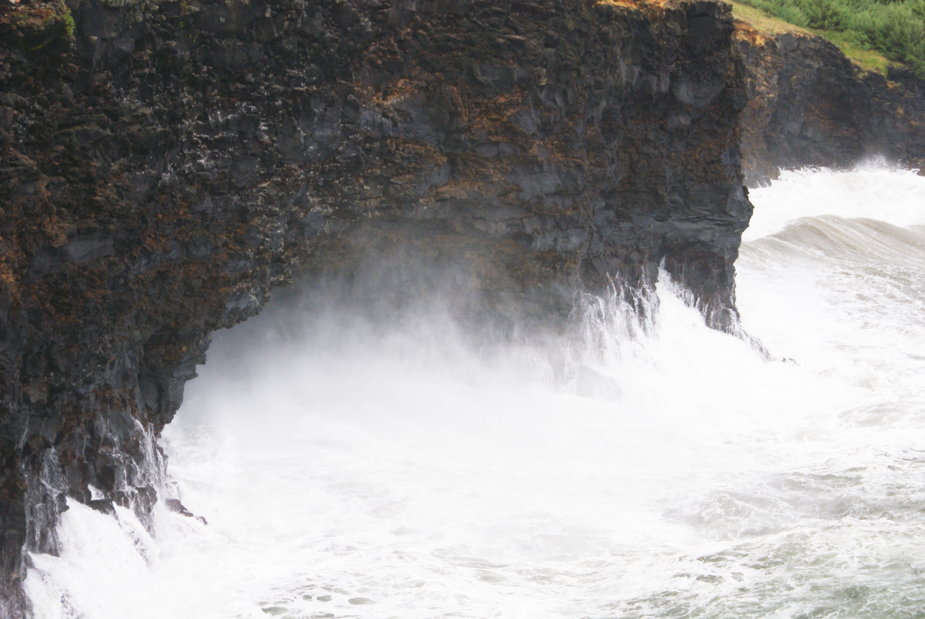 Miradouro da Lajinha, Furmações rochosas, Lajinha, concelho da Horta, ilha do Faial, Açores, Portugal